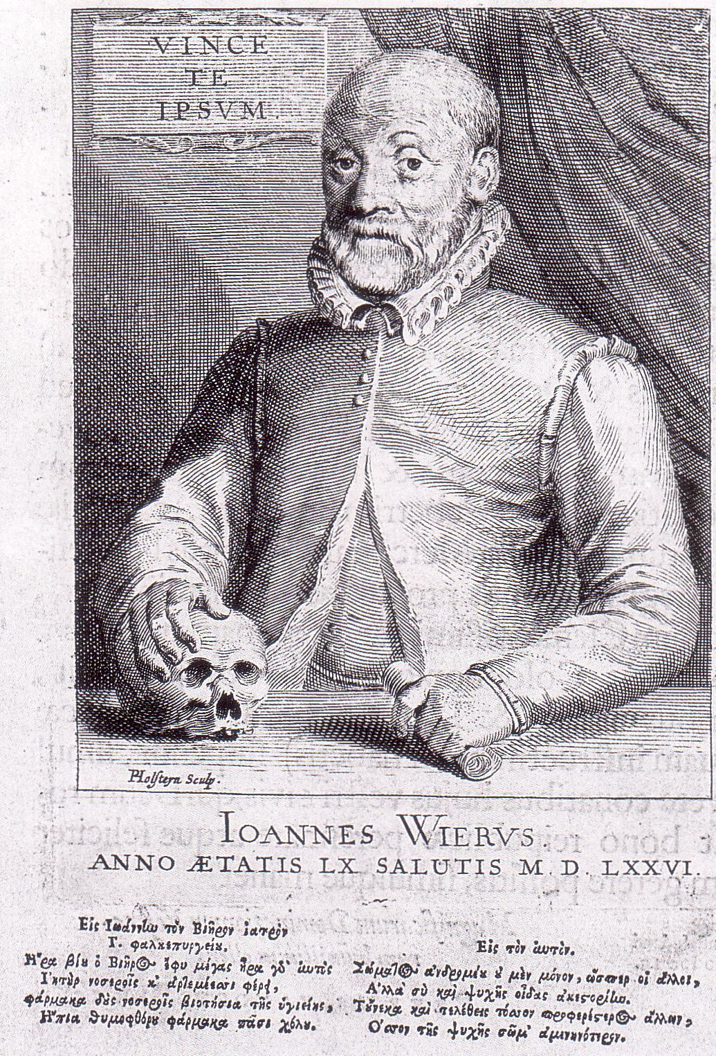 Portrait of Johannes Wier (Weyer). Used in Melchior Adam (red.; 1660) Ioannis Wieri Opera [...] Omnia [2nd ed.], Amsterdam: s.n., 1660. After a woodcut from the 1576 Basel edition.